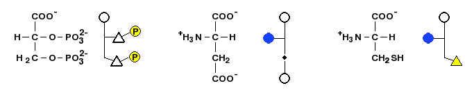 Figure examples polygonal model and Fisher model